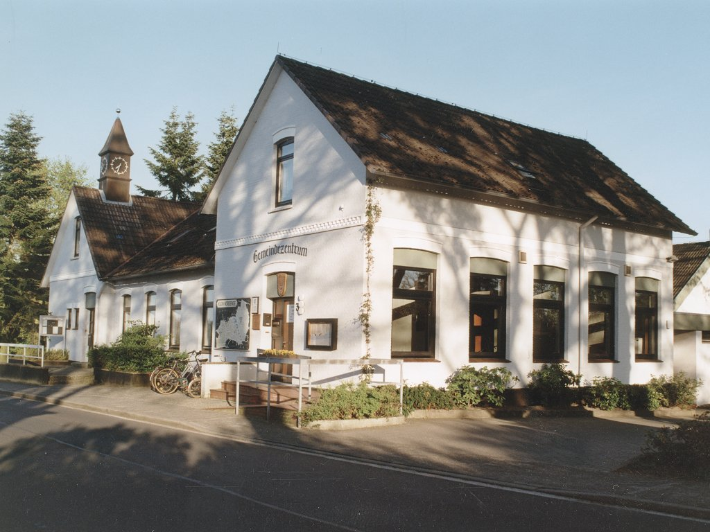 Community-center of Klein Nordende (Schleswig-Holstein,Germany), photo 2000